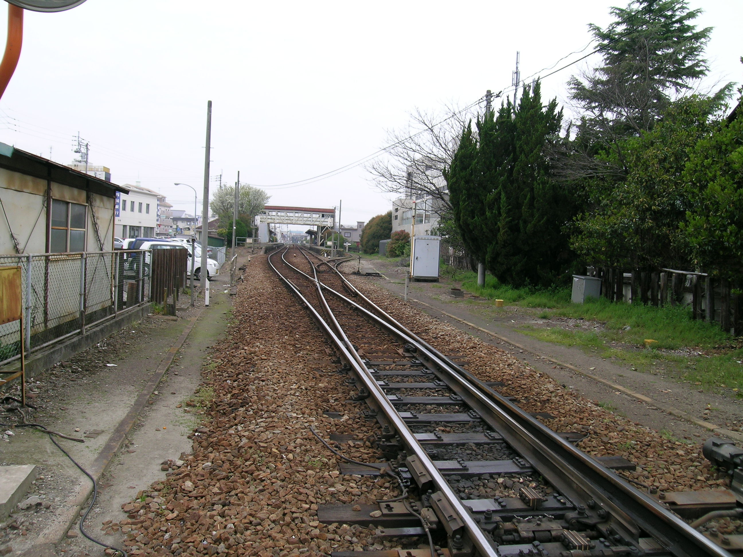 Kamojima Station, viewed from a level crossing